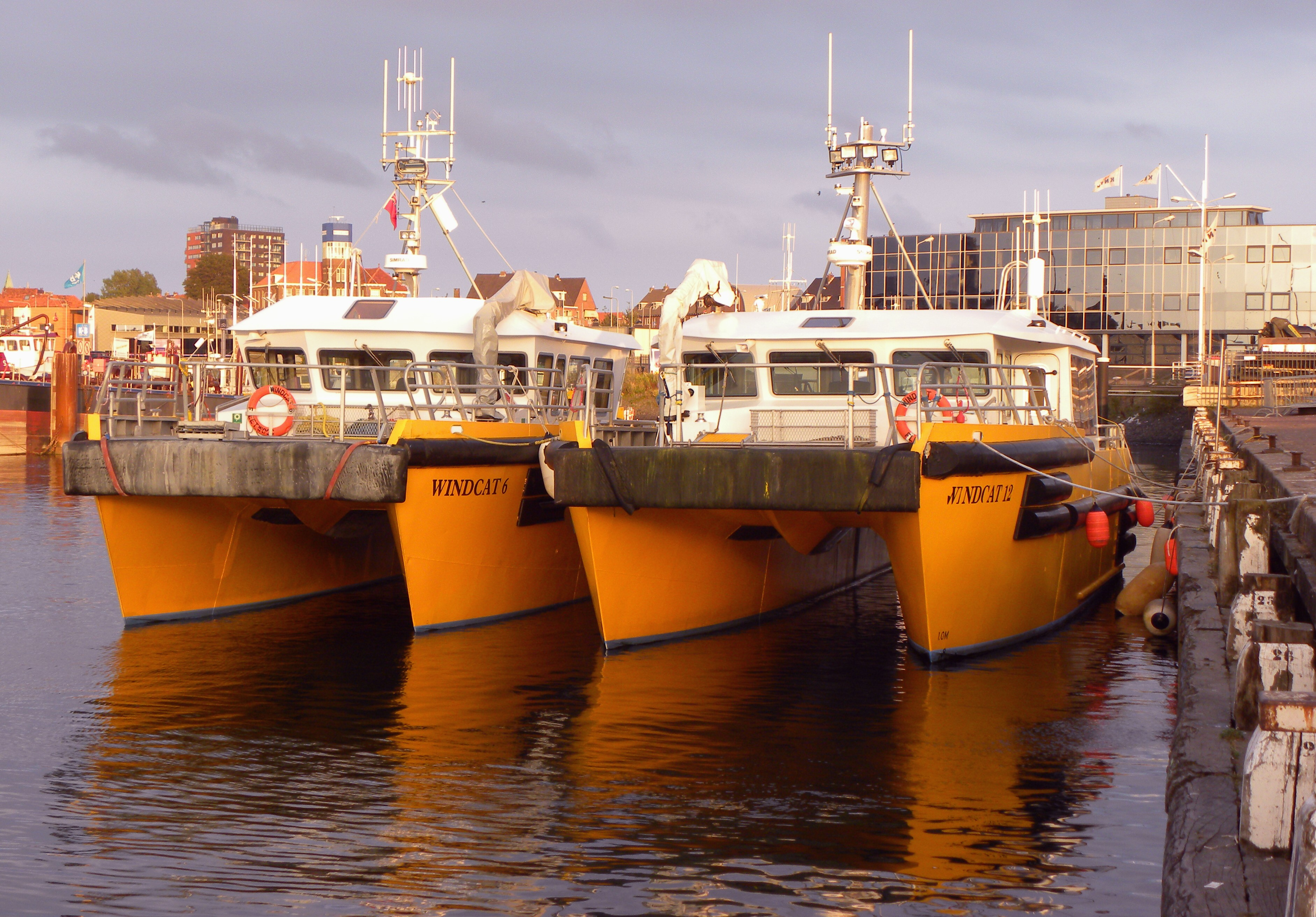 windcat 6 & 12 - Fleetwood -offshore windfarm utility vessels seen at IJmuiden in late evening light.